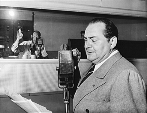 Edward Arnold, American actor. Original caption: Edward Arnold hits punch line on the War Production Board (WPB) radio program "Steel," presented over Blue Network on May 6. In background, director Sam Pierce signals Meredith Wilson to come in with music.